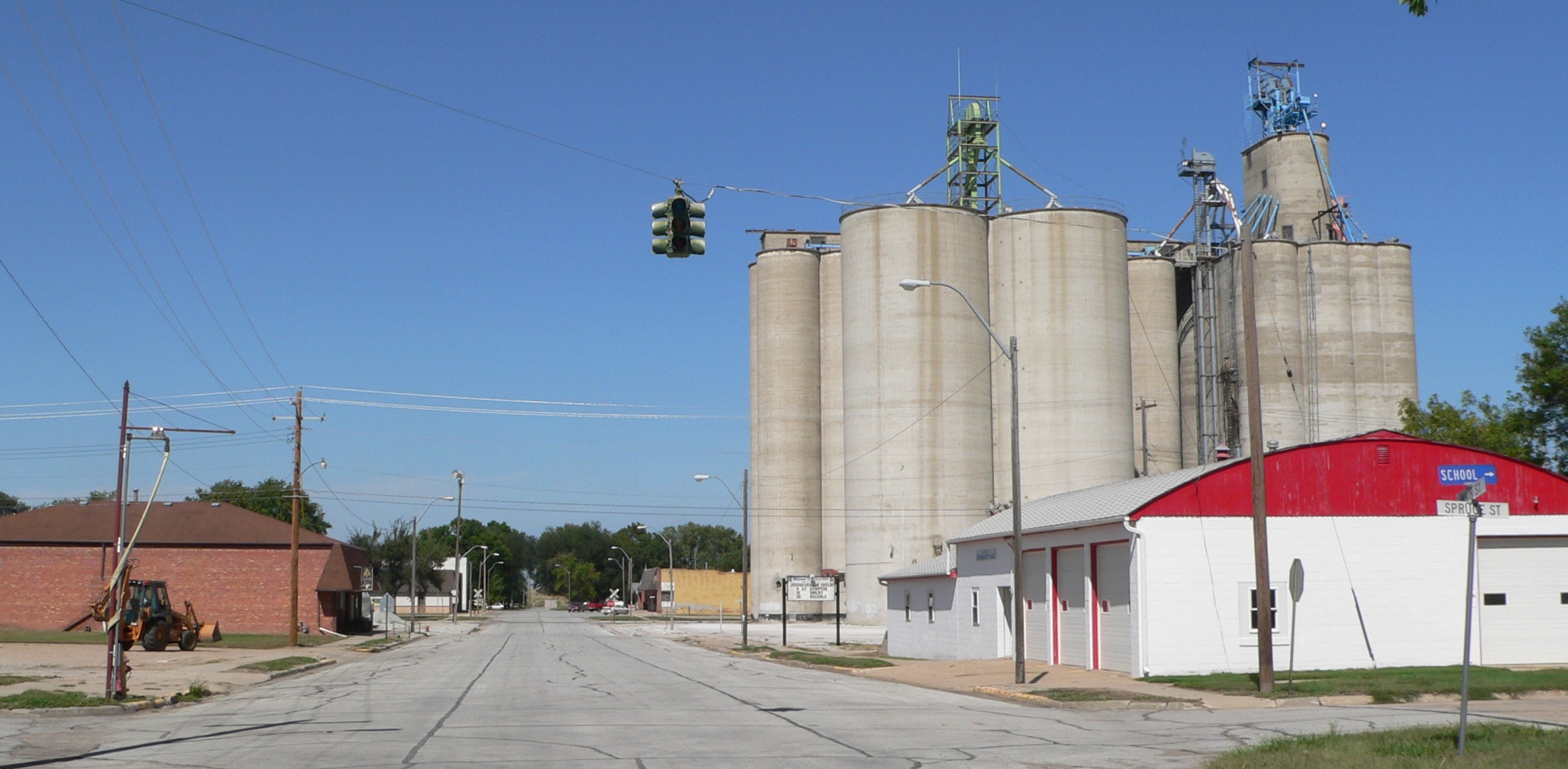 Downtown Rising City, Nebraska: Main Street, looking north from south of Spruce Street.